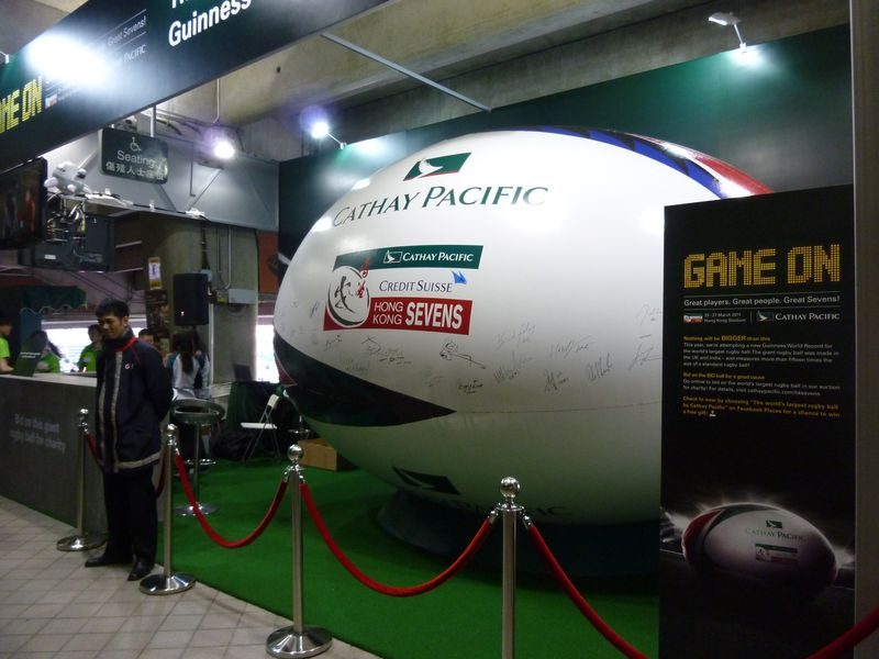 2011 Hong Kong Rugby Sevens – world's largest rugby ball up for grabs